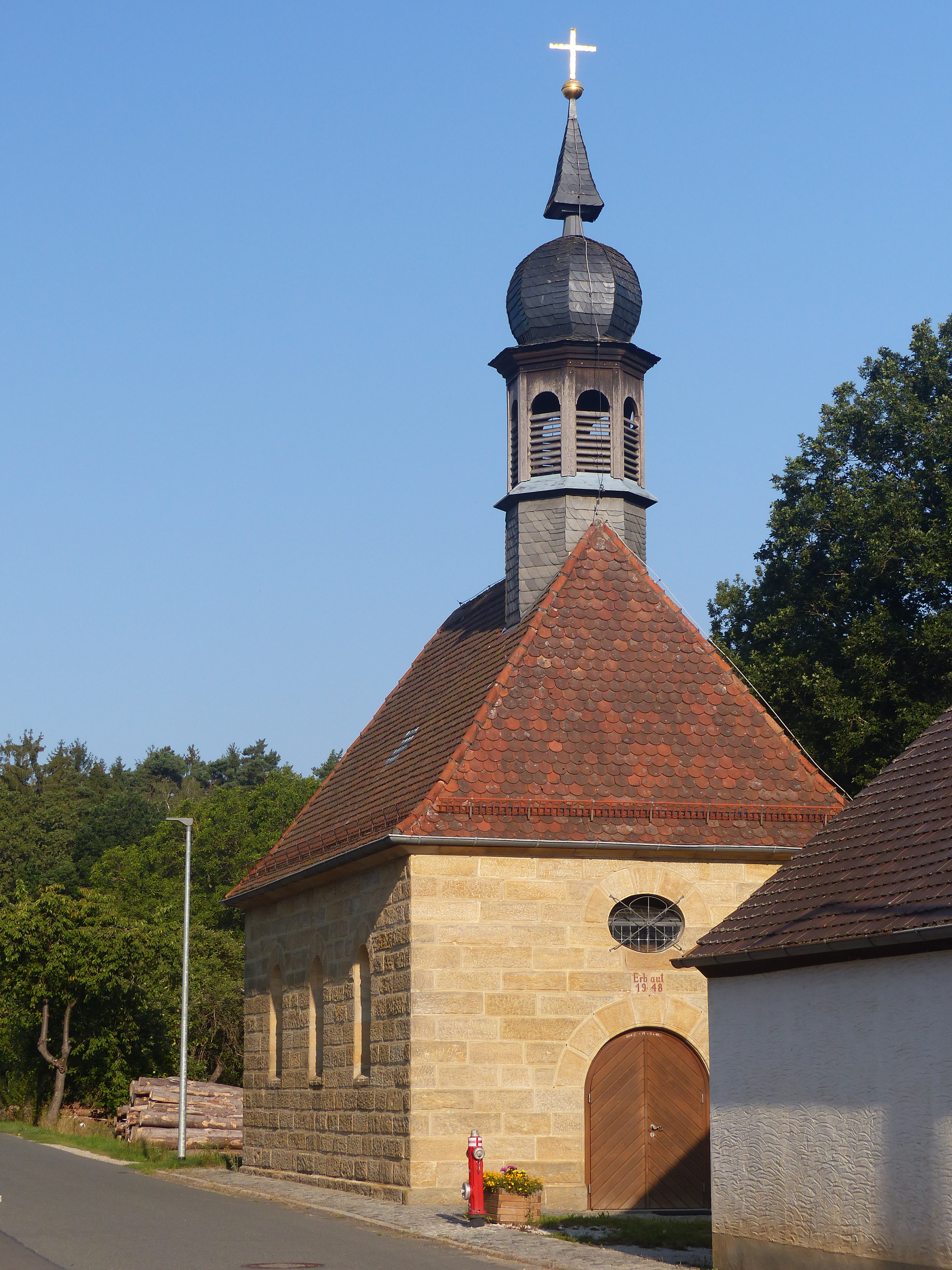 The chapel of the village Serlbach, a district of the town of Forchheim.